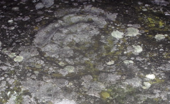 Drumtroddan Cup and Ring Marks, Dumfries and Galloway, Scotland. Detail.